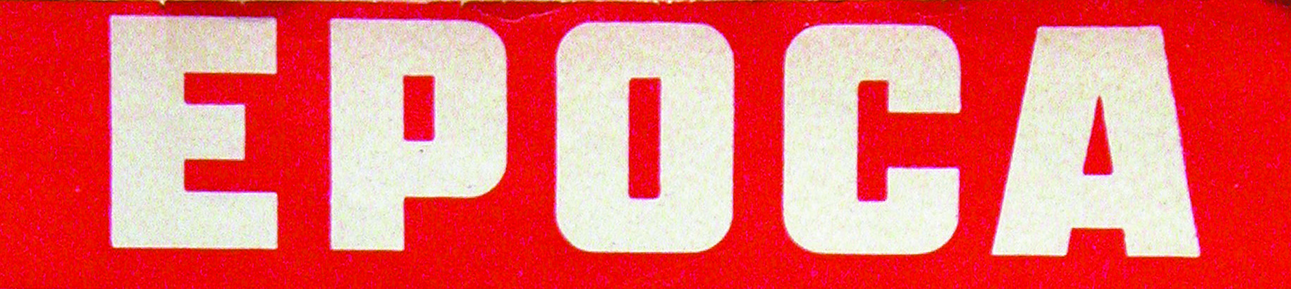 Cover of Magazine "Epoca" (14 October 1950 - Italy)